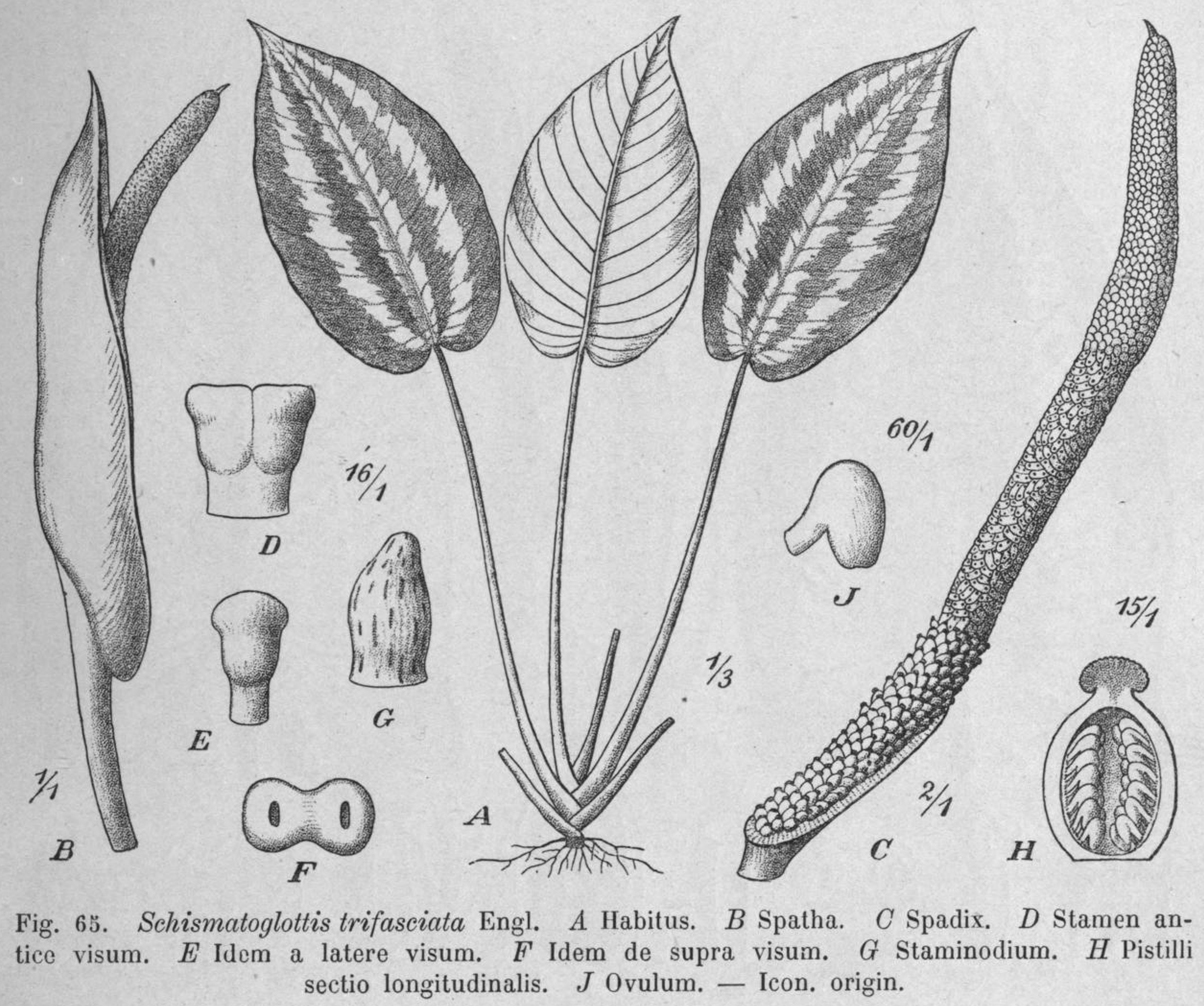 Schismatoglottis trifasciata from Das Pflanzenreich